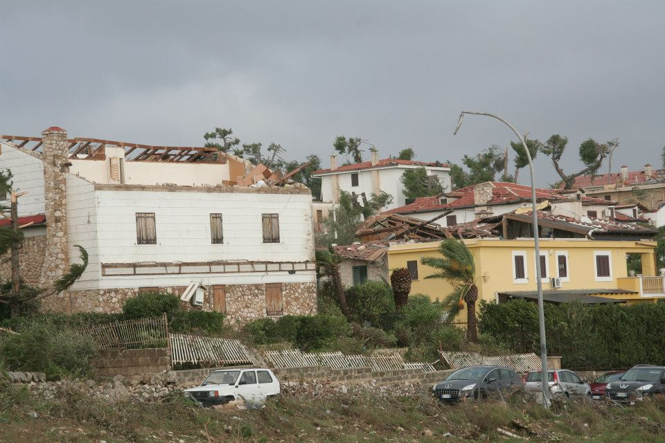 Danneggiamento alle abitazioni causato dal tornado del 28-11-2012